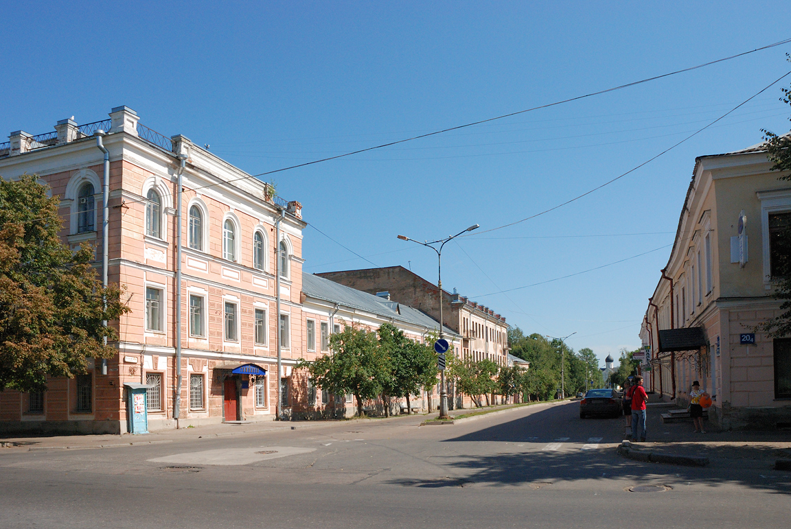 Ilyina street viewed from Bolshaya Moskovskaya street